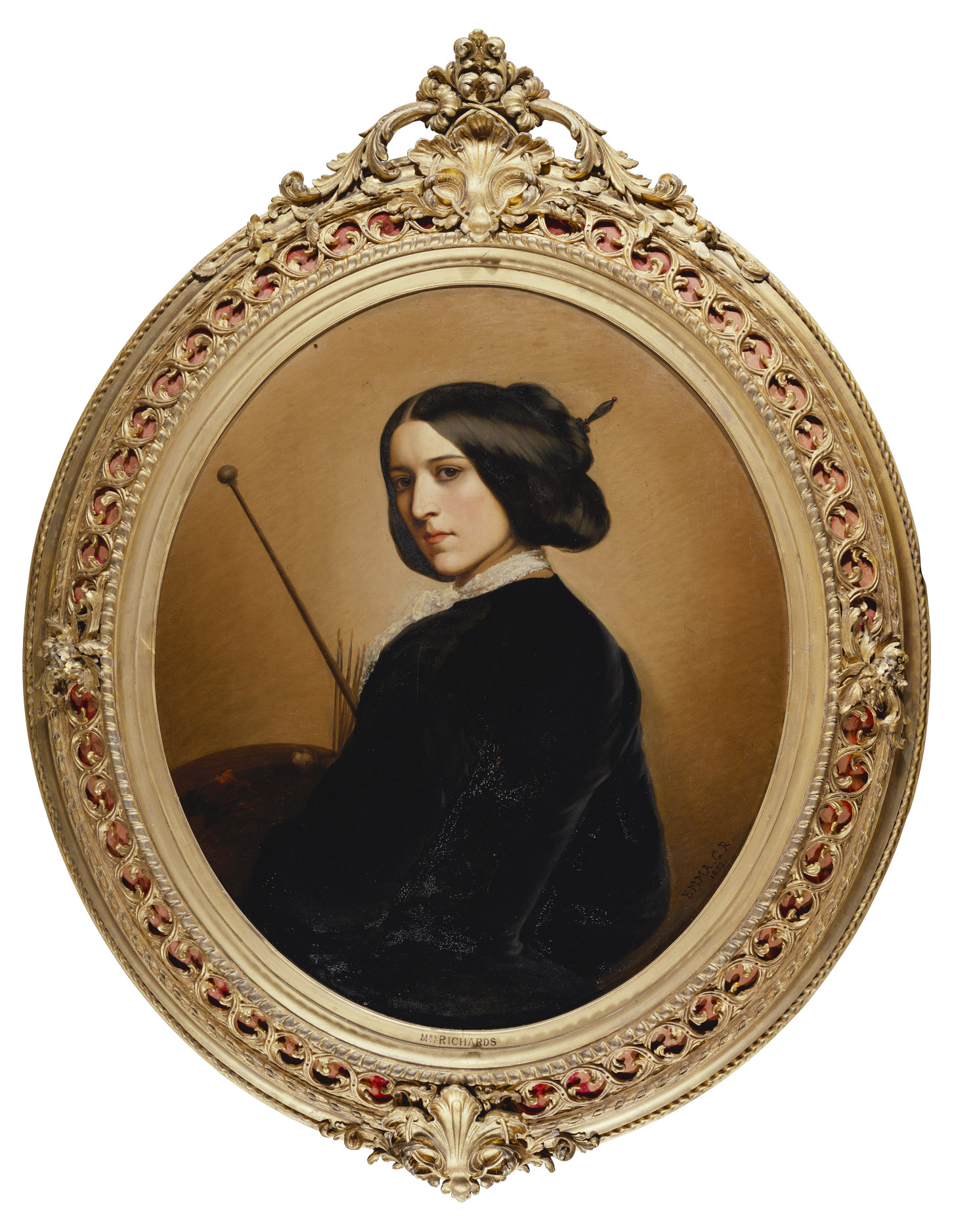 This is by Emma Gaggiotti Richards who was born in Italy and was a favourite of Queen Victoria. She died in 1912